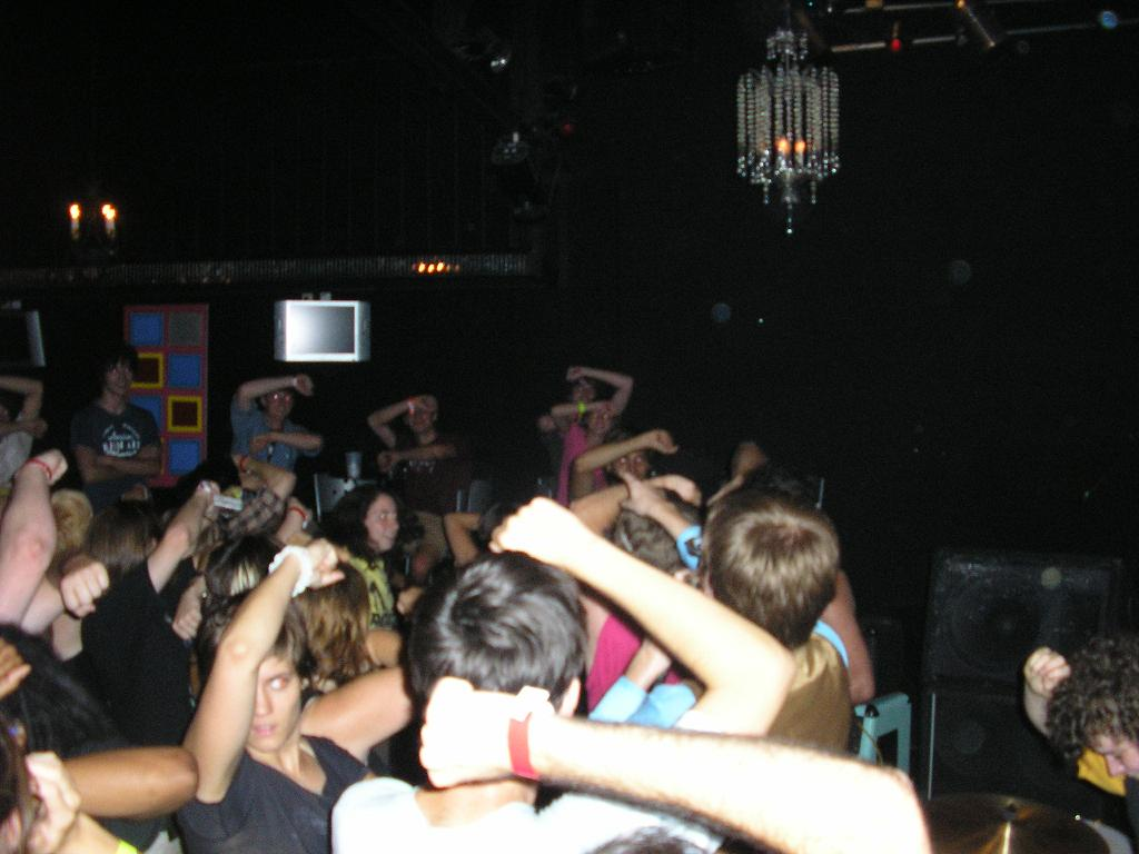 Picture of an audience during a Soophie Nun Squad show performing "The Cinderblock". The picture also shows one individual not doing "The Cinderblock" and consequently being ridiculed by a band member. This picture was taken at the Dickson Street Theater in Fayetteville, Arkansas in 2005.